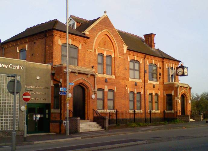 The Council House in Brownhills, photographed by myself on 4 November 2007